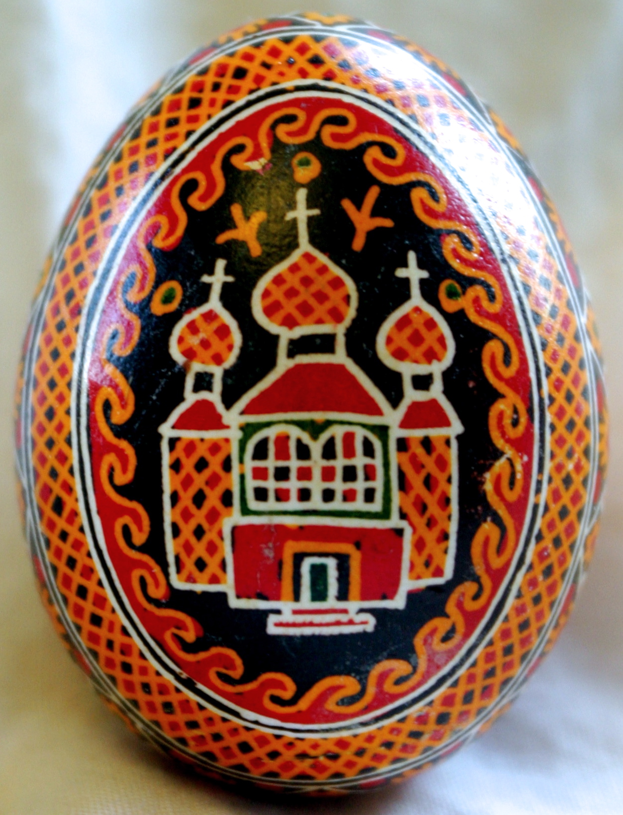 An example of a traditional pysanka with a church motif. This pysanka is from the village of Kosmach in Ivano Frankivsk oblast.